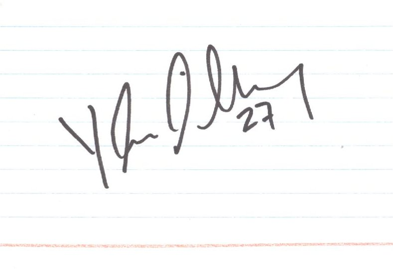 Autograph of Swedish ice hockey player Ylva Lindberg